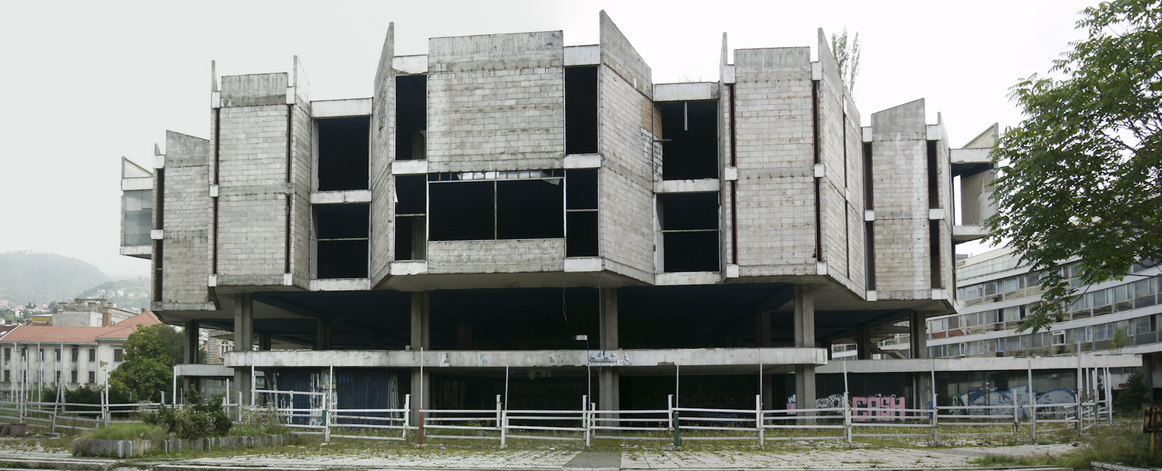 Pictured here in 2005 before it was demolished and BBI Centar put in its place. Robna kuća Sarajka was destroyed totally during Siege of Sarajevo 1992-1996.